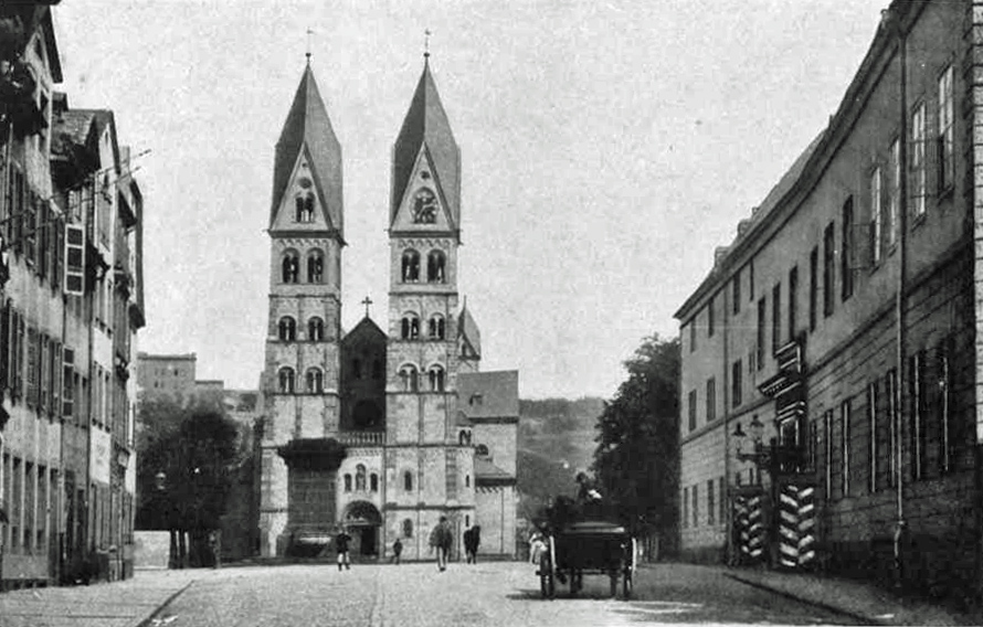 Church St. Castor in Koblenz